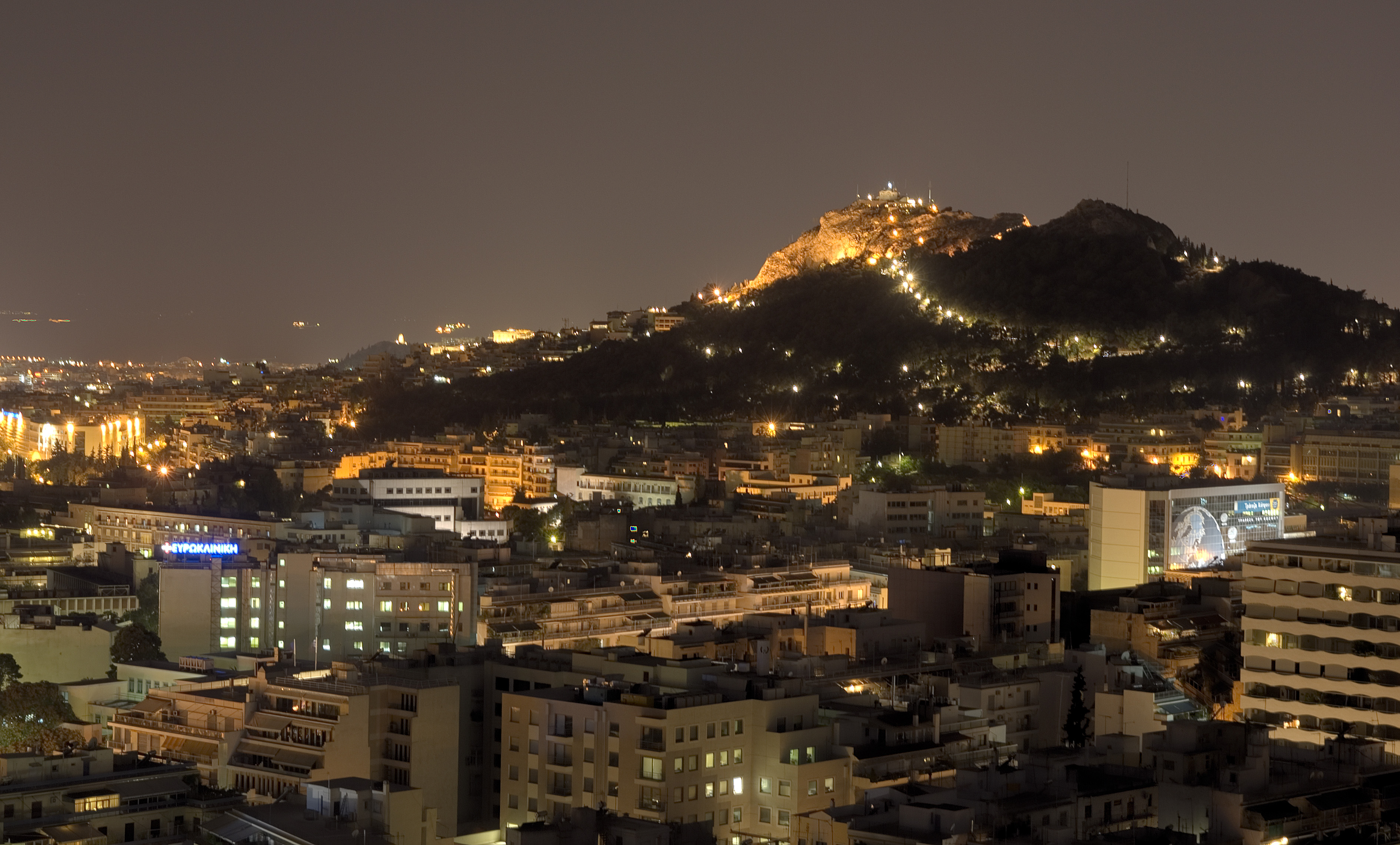 Mount Lycabettus, Athens, Greece.